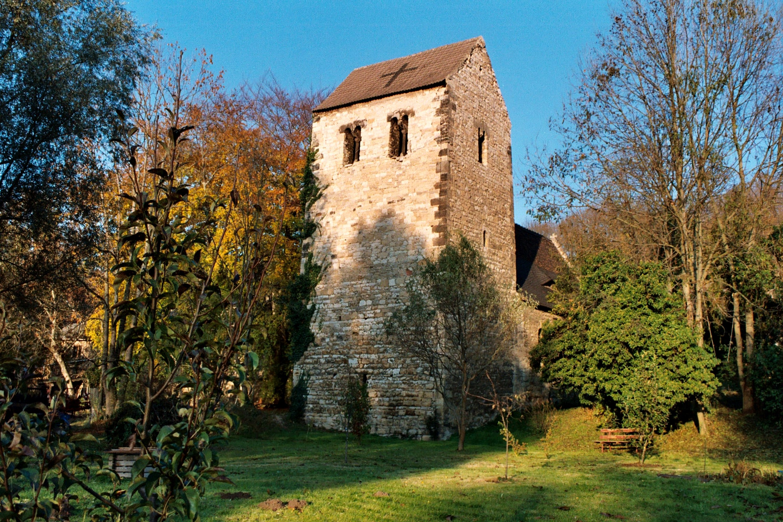 Köllme (Salzatal), the village church